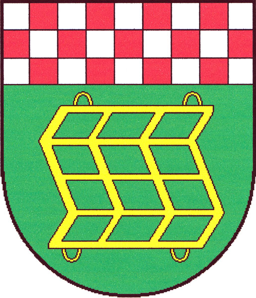 Municipal coat of arms of Moravské Málkovice village, Vyškov District, Czech Republic.